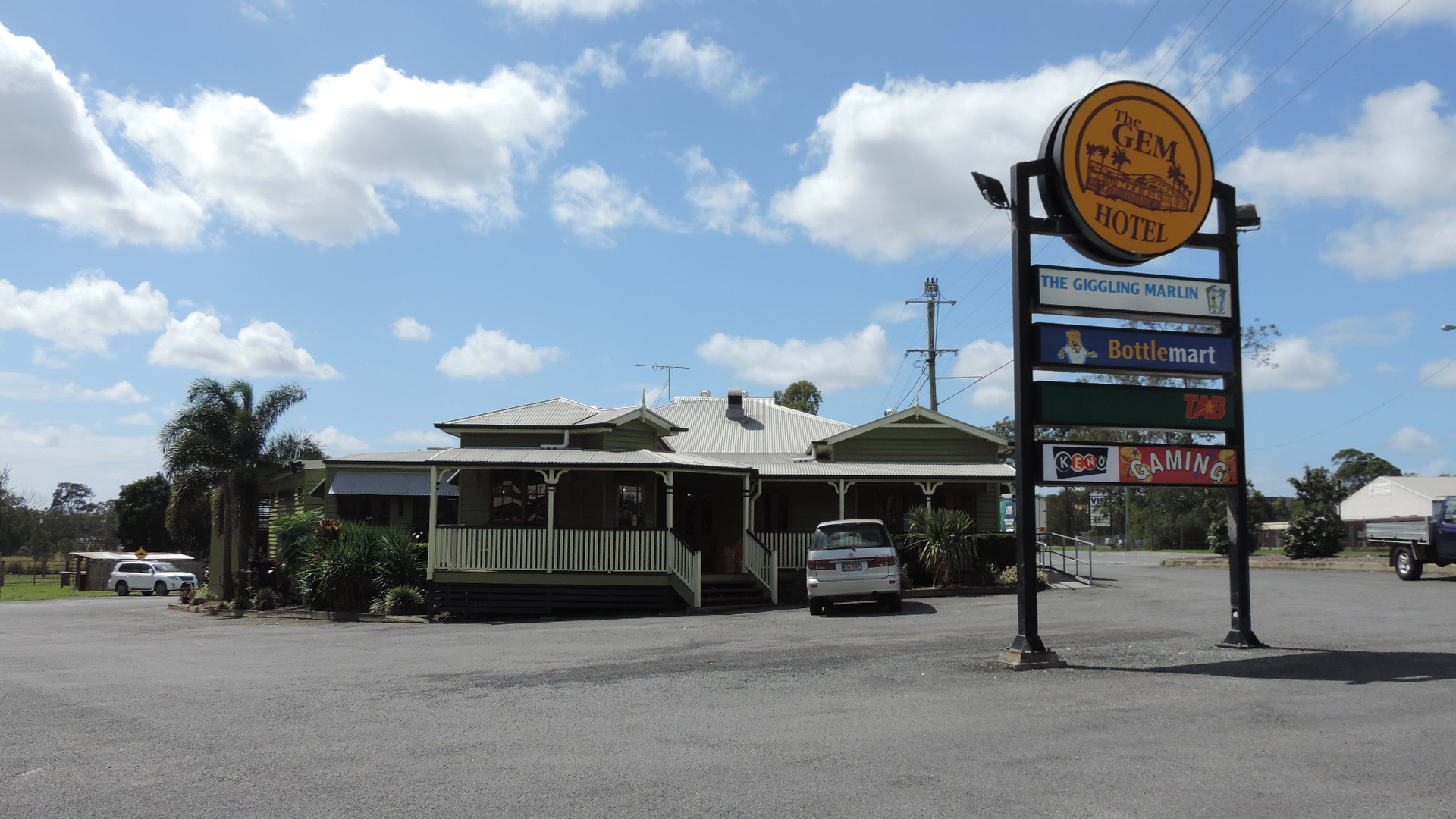 The Gem Hotel, Alberton, Queensland